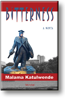 Book cover of Malama Katulwende's novel "Bitterness", published in 2005 by Mondial, New York.